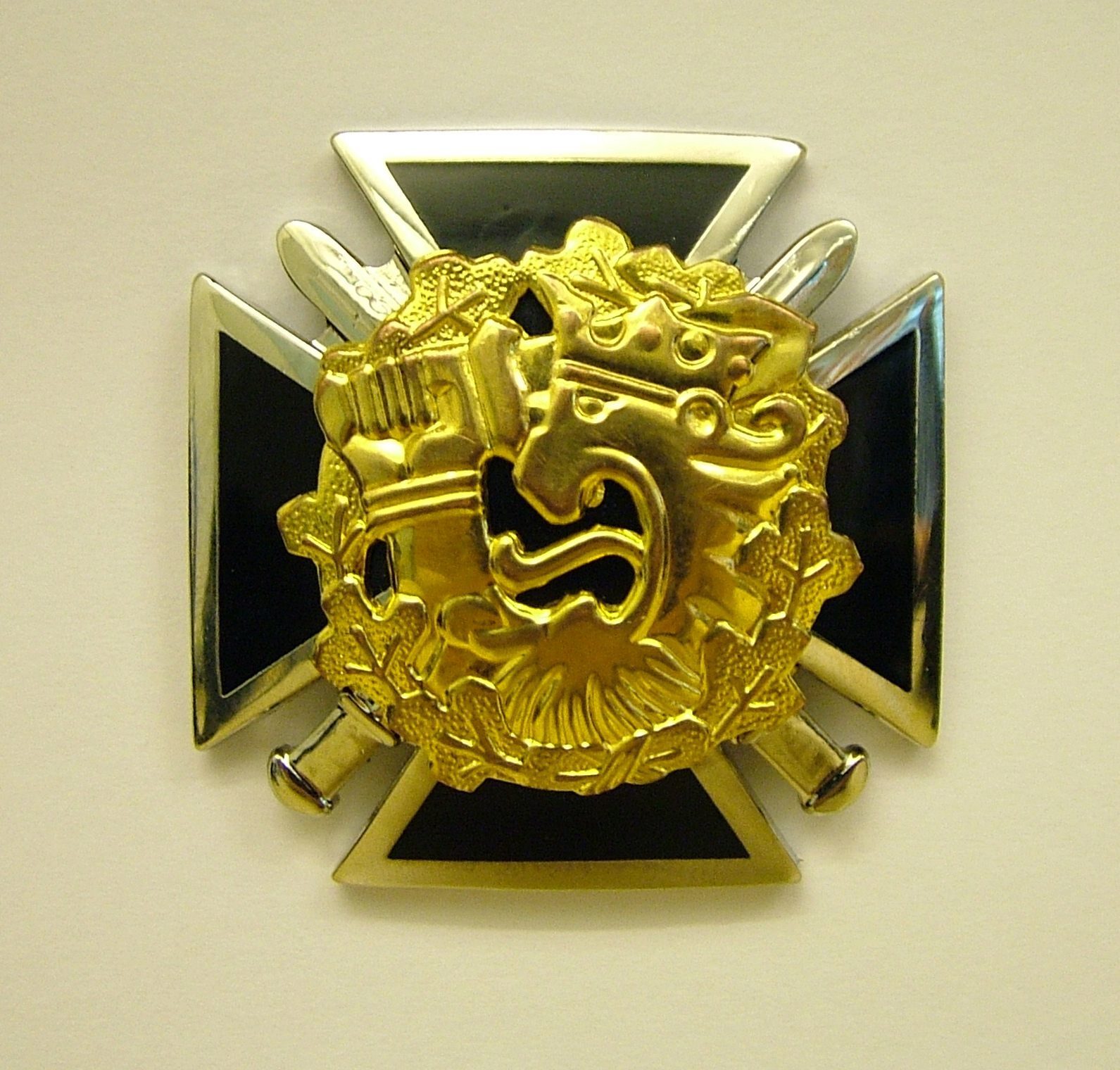 The "Aliupseerikoulun risti" that is given to all who graduates Finnish defenceforces reserve NCO-school.